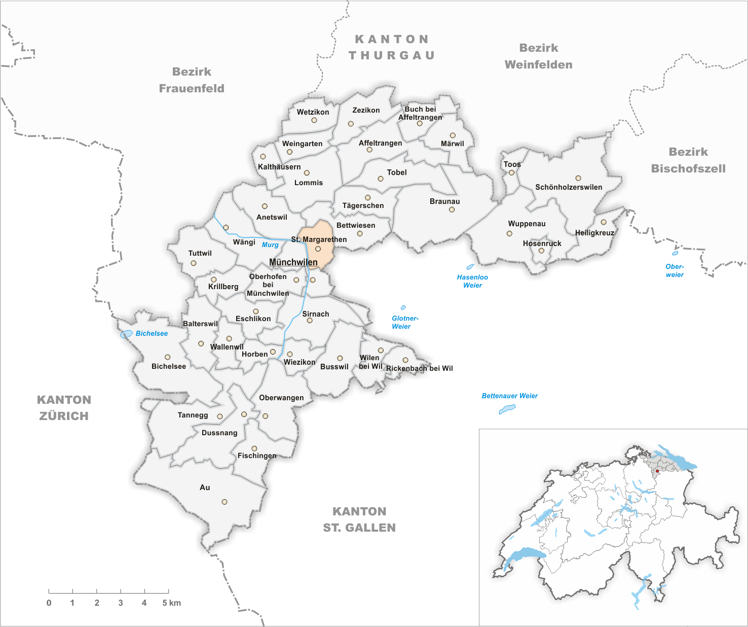 Municipality St. Margarethen